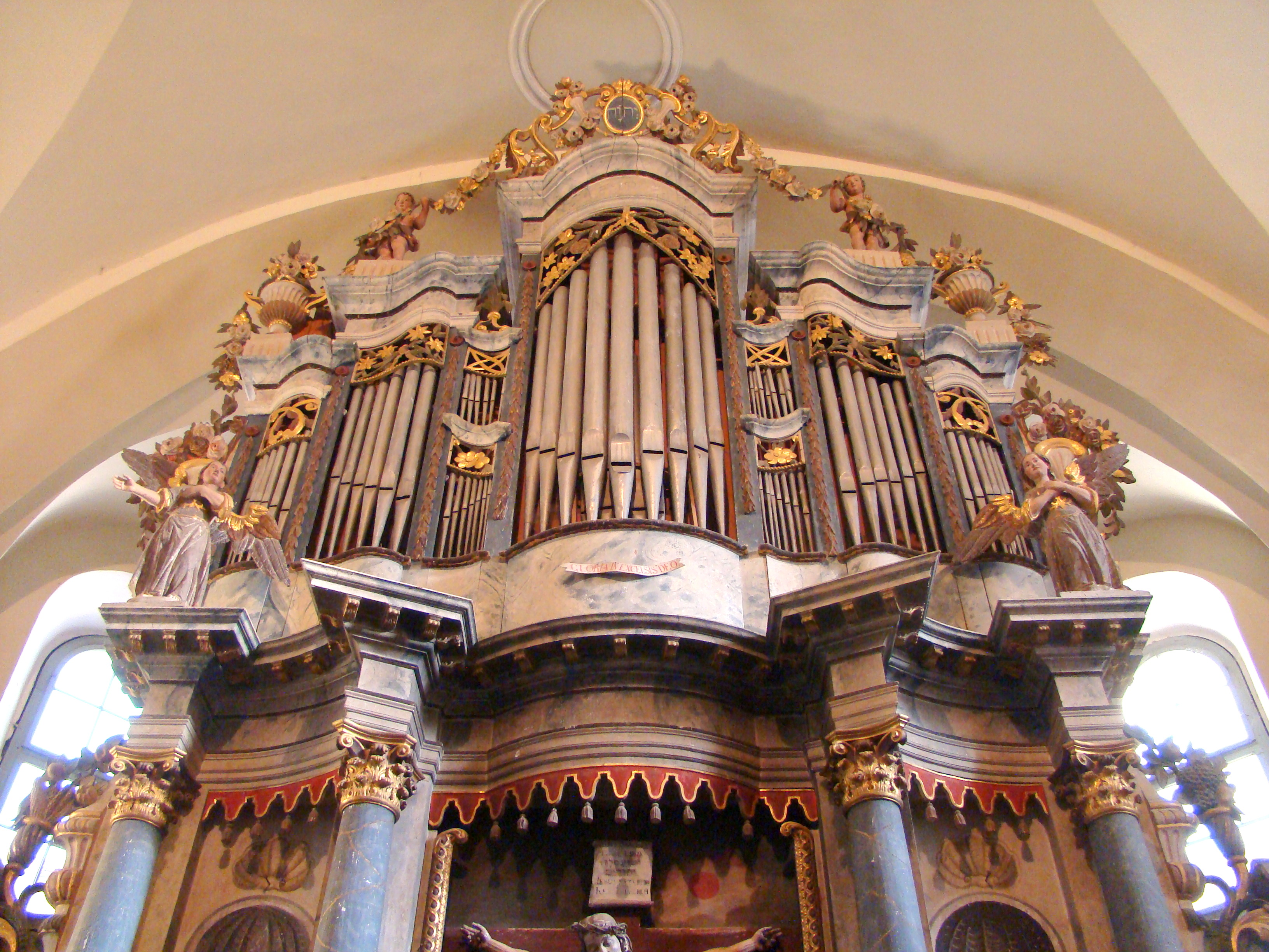 Fortified church in Homorod, Brașov County, Romania